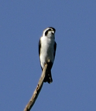 Pied falconet, (Microhierax melanoleucos) from pakke tiger reserve